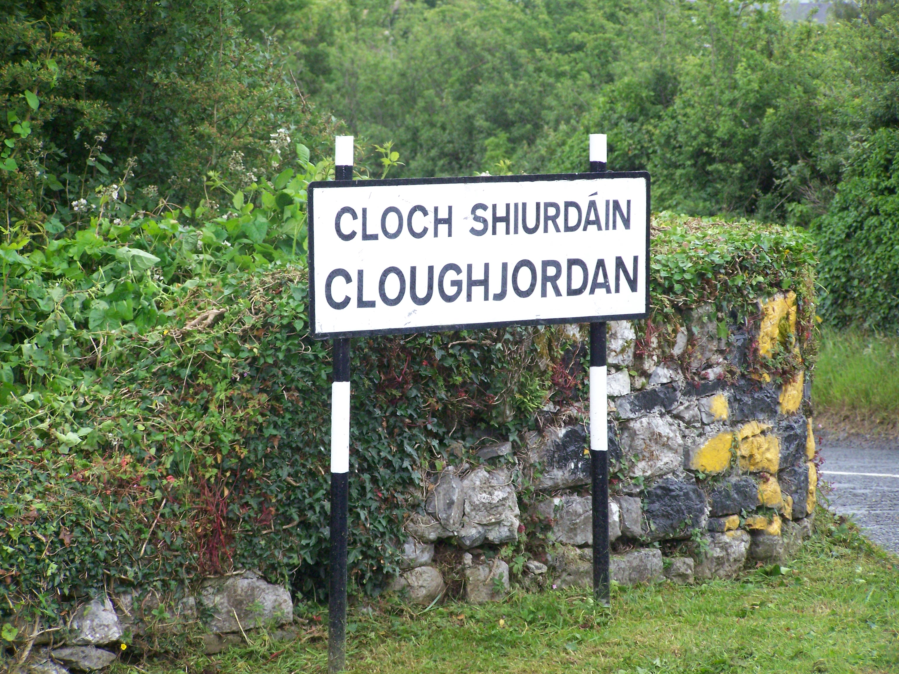 Official "Name-plate" (1 of 3) for the village of Cloughjordan in North Tipperary, Ireland.